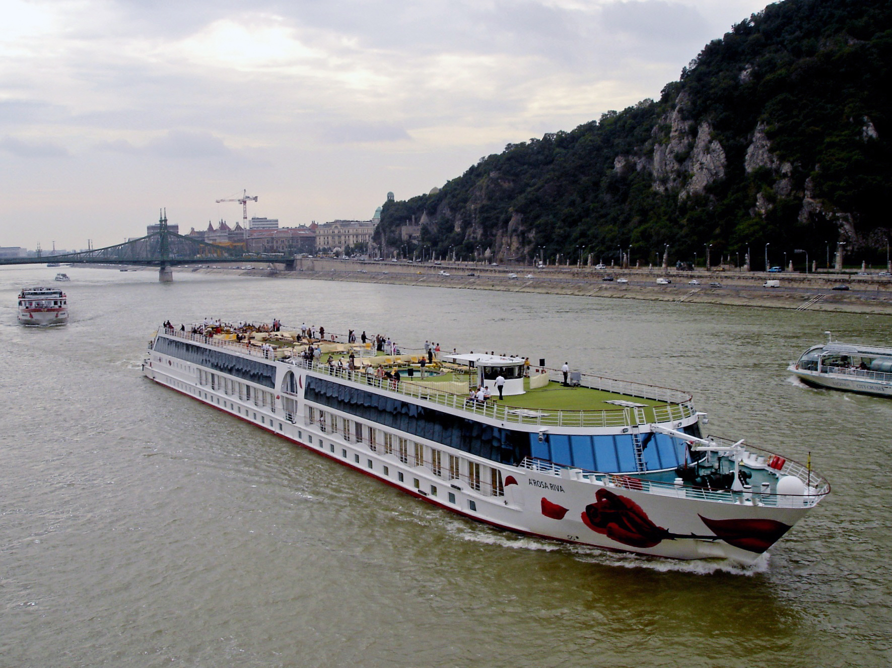 A-Rosa Riva on the River Danube under the shadow of Gellert Hill and Elizabeth Bridge.